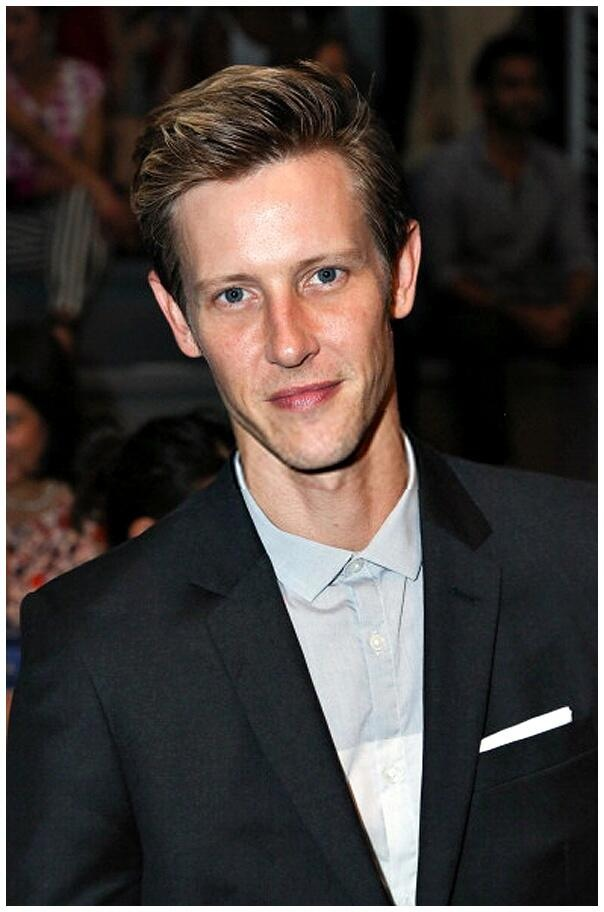 Gabriel Mann, Actor